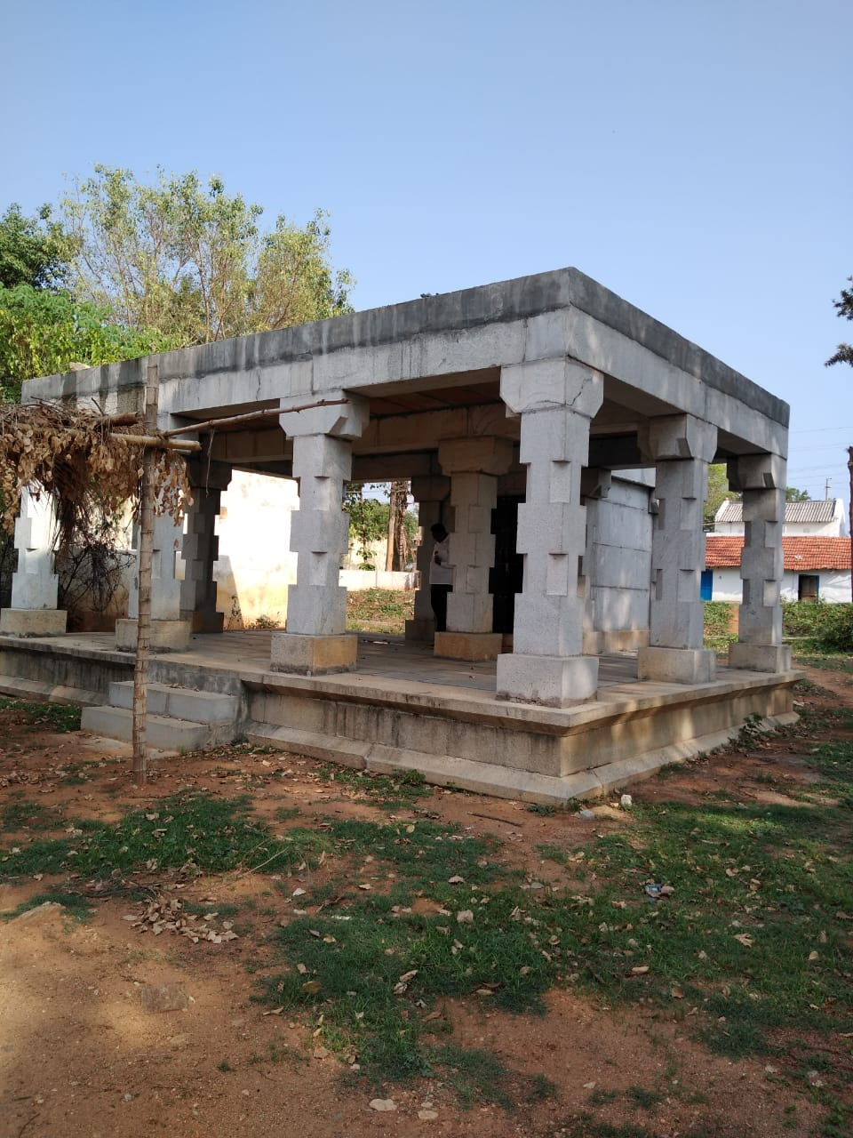 Marigudi under construction